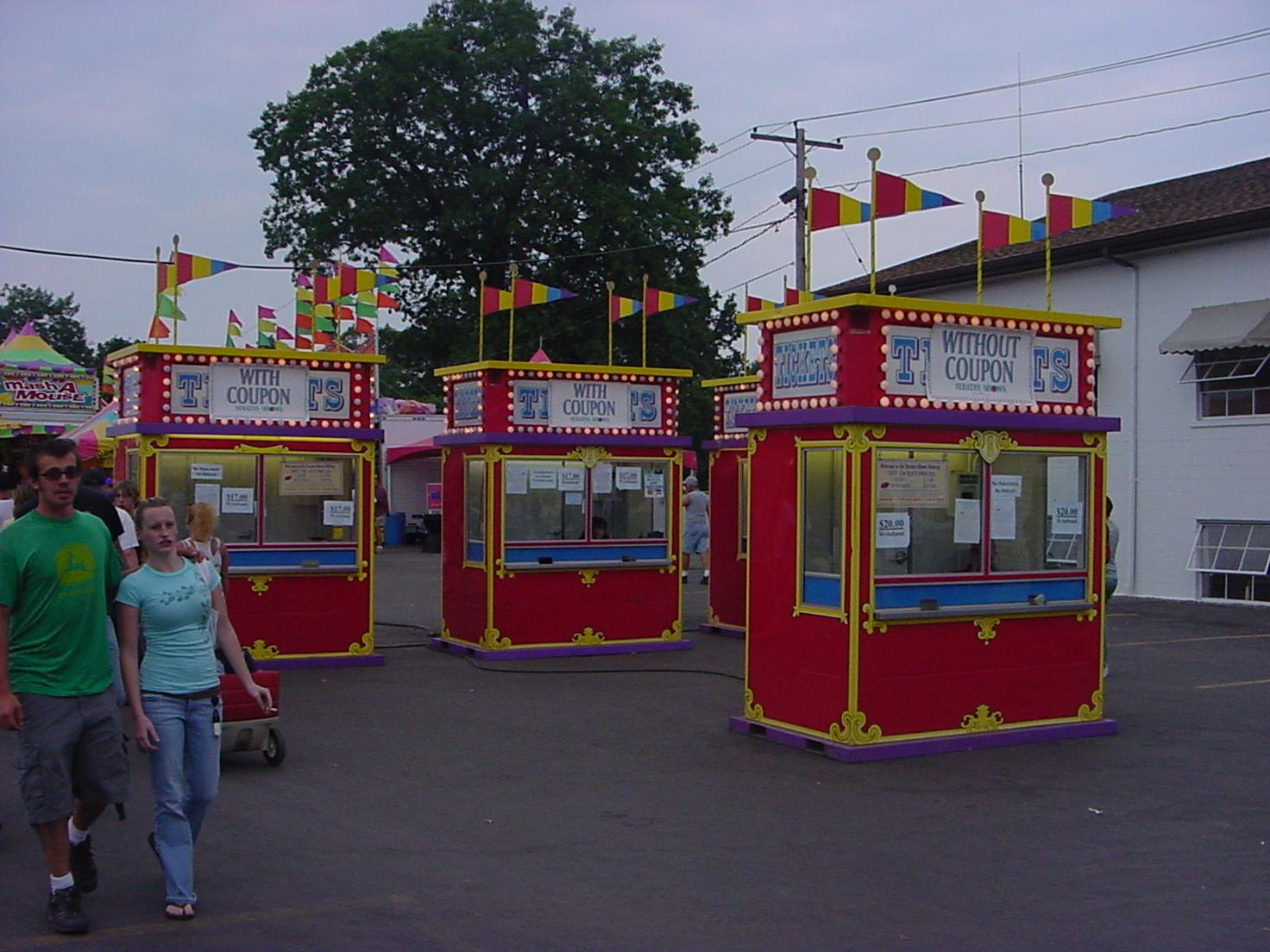 Ticket booth at the Erie County Fair Hamburg, New York Summary Ticket booth at the Erie County Fair Hamburg, New York